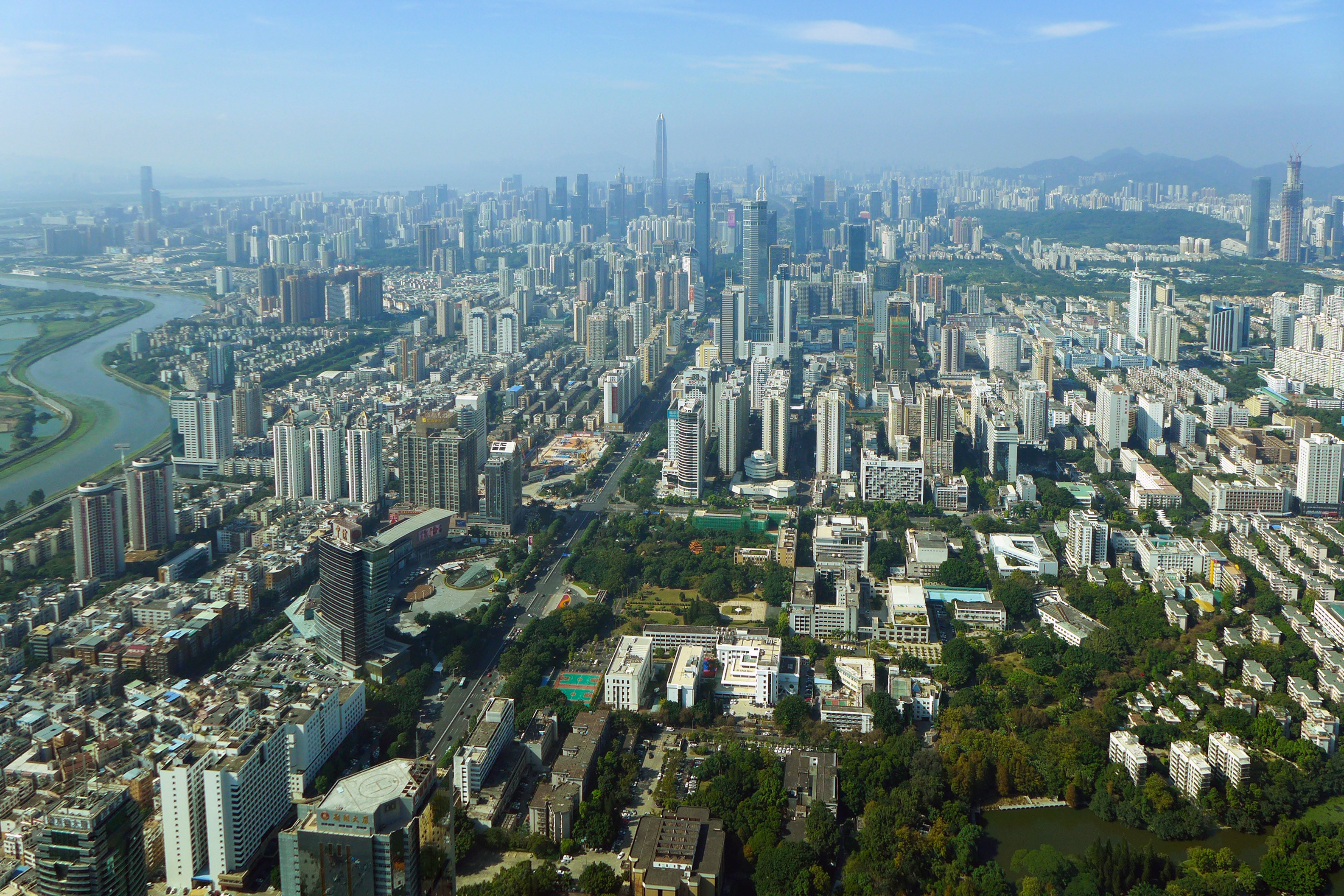 Futian District